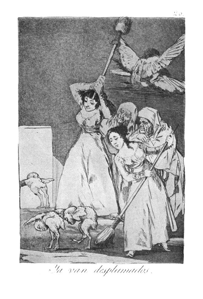 Los Caprichos is a set of 80 aquatint prints created by Francisco Goya for release in 1799.